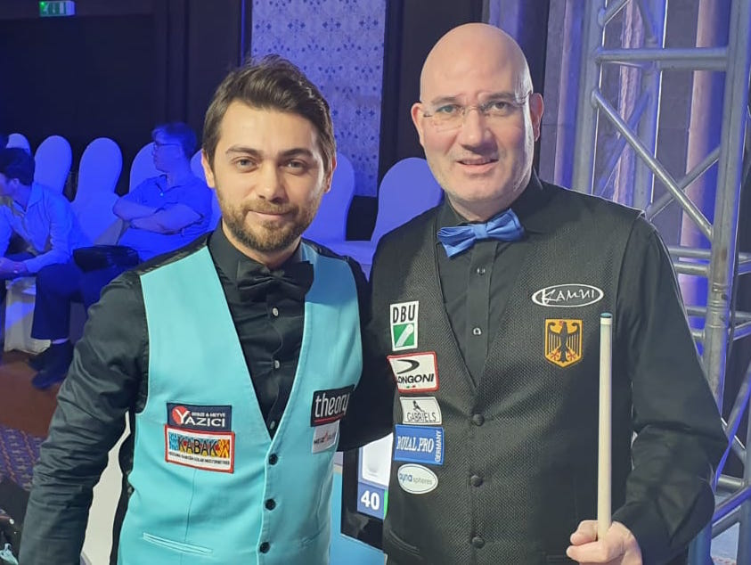 see fiel name